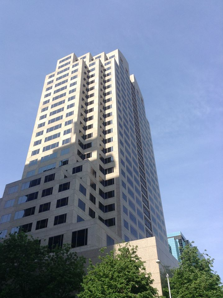 The Wells Fargo Tower, is the tallest building in Sacramento, CA, and is primarily an office building.